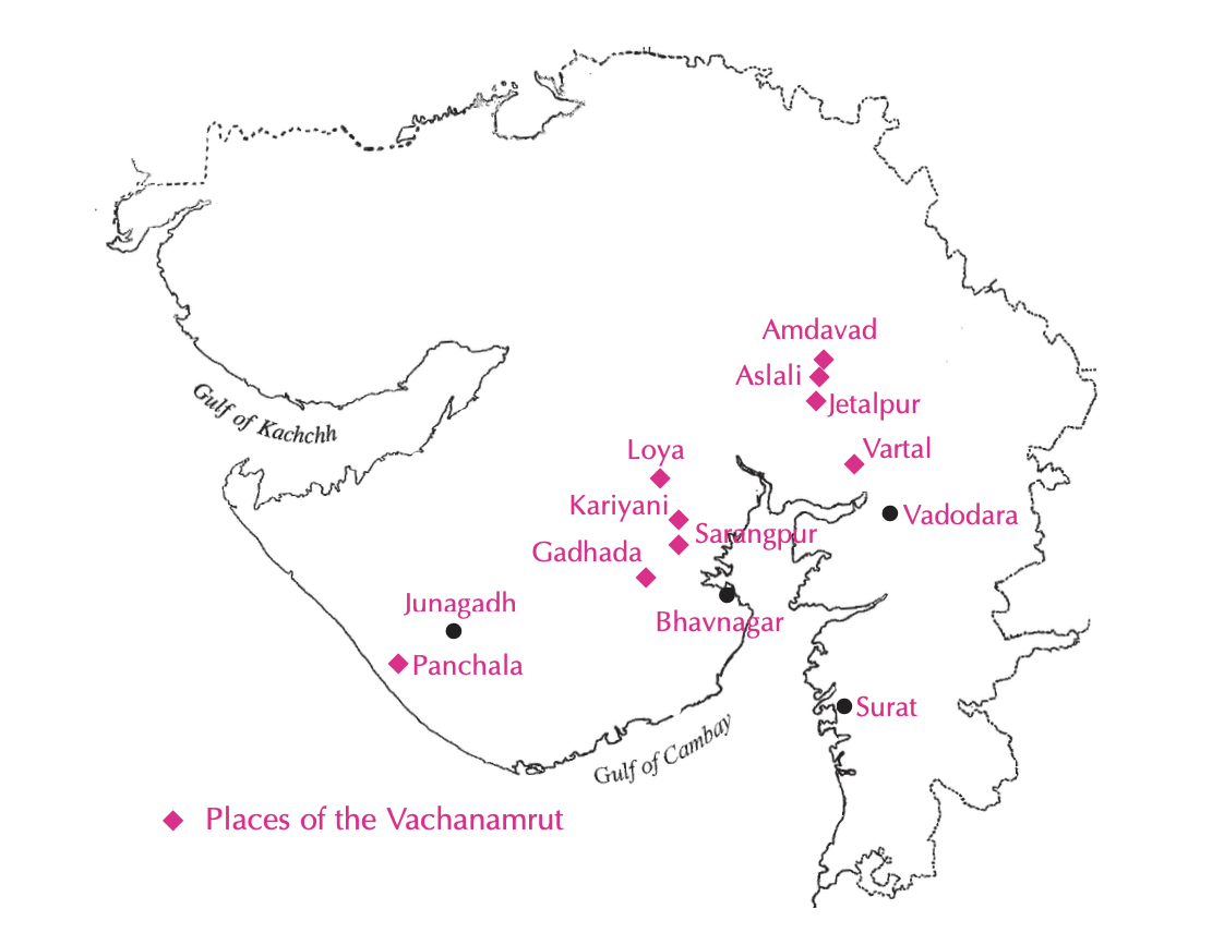 Gujarat map showing the locations of where the Vachanamrut takes place